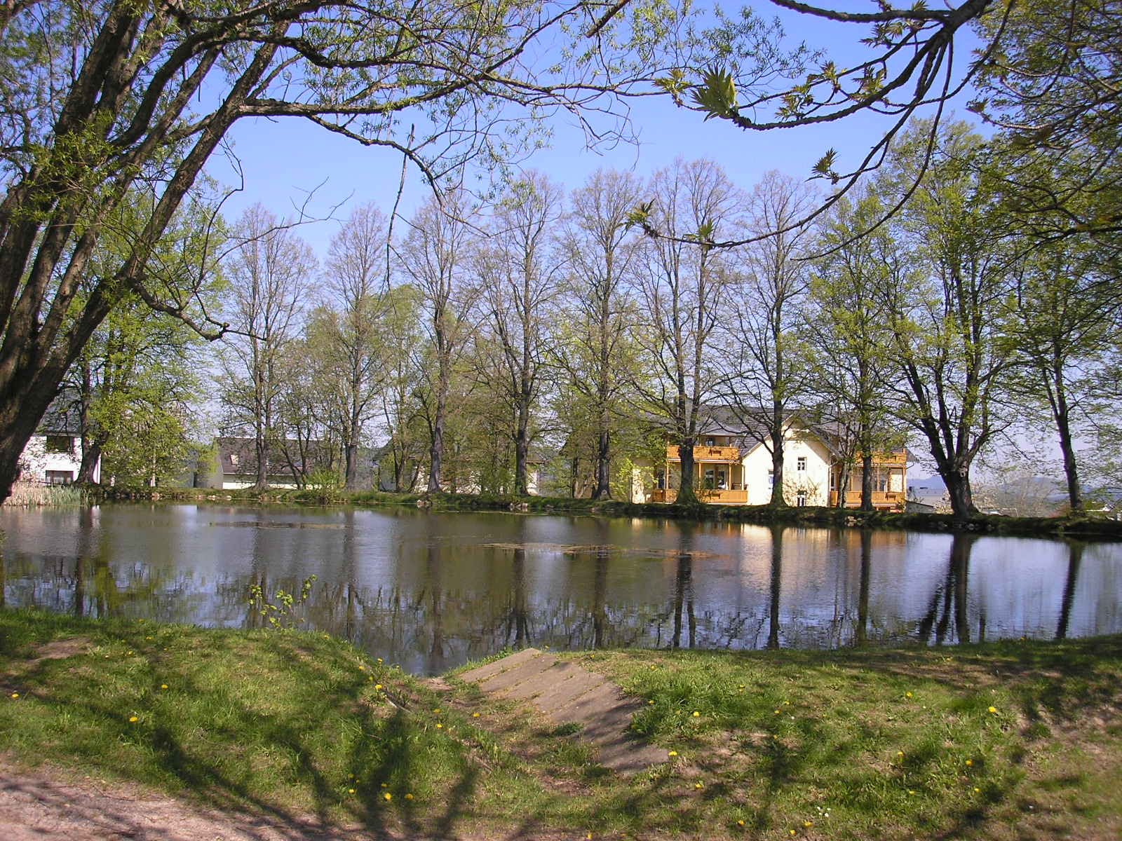 Village lake of Unterpörlitz, a district of Ilmenau in Thuringia.